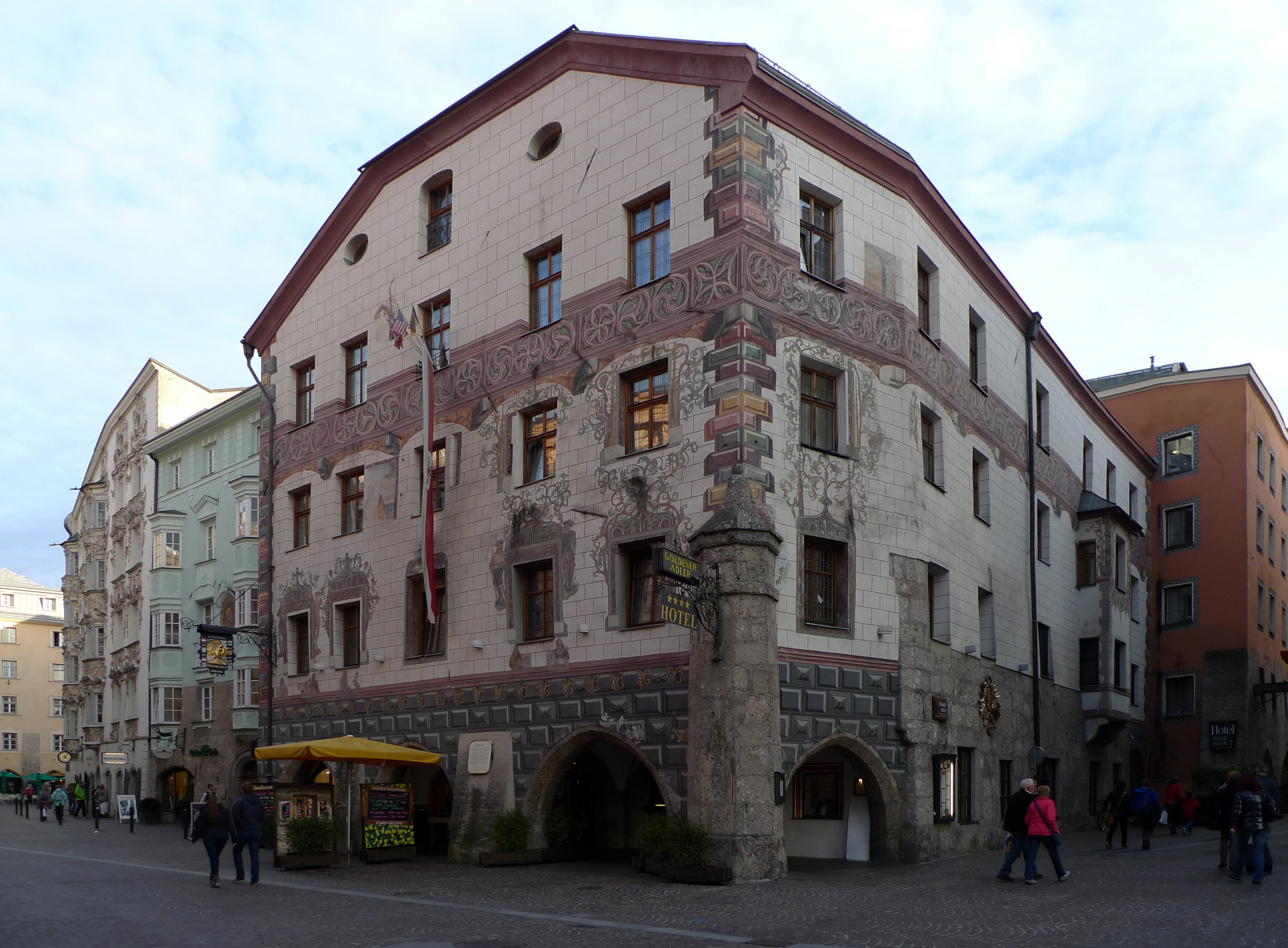 Hotel Goldener Adler, Innsbruck, Tyrol, Austria